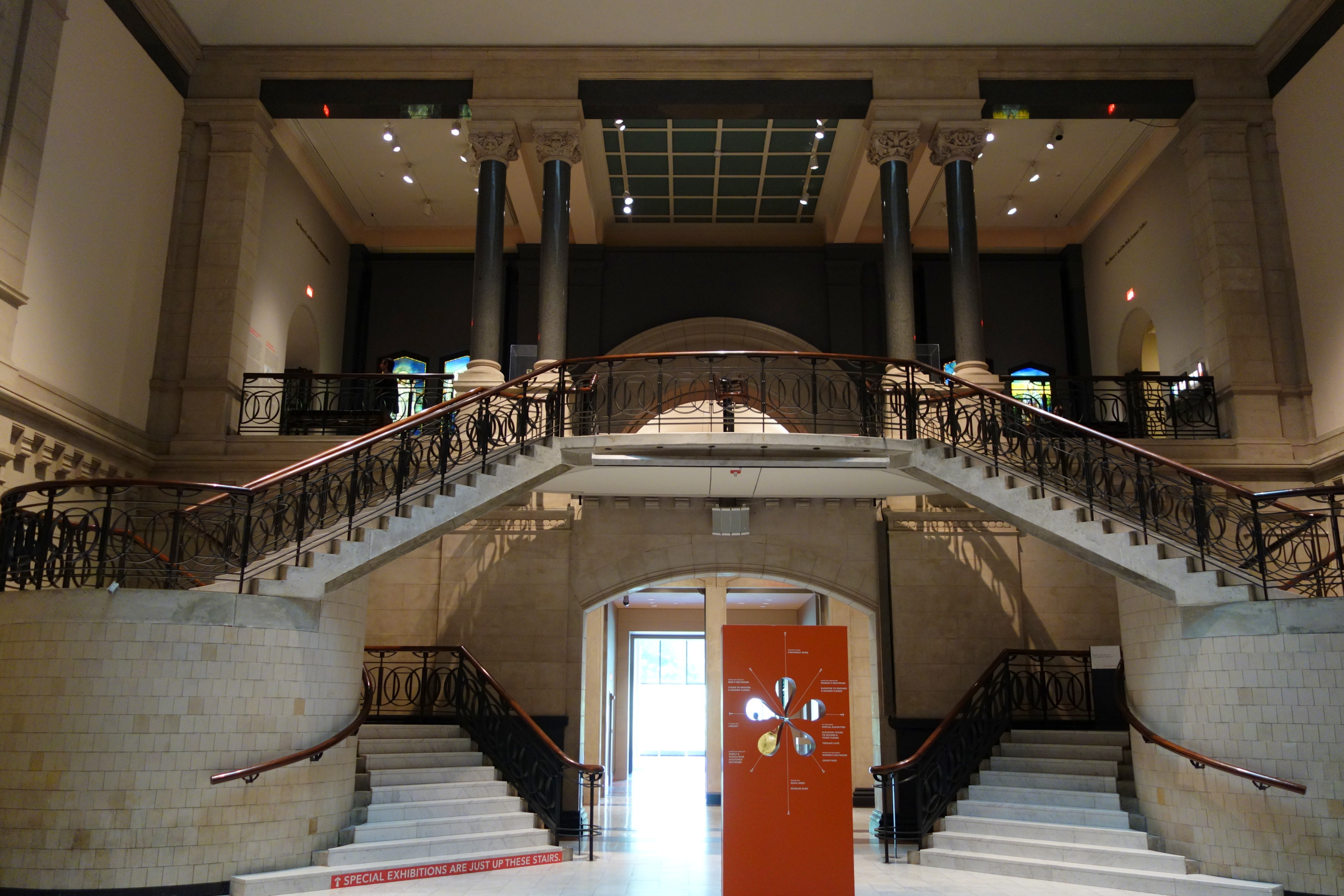 Stairway in the Cincinnati Art Museum, Cincinnati, Ohio, USA.